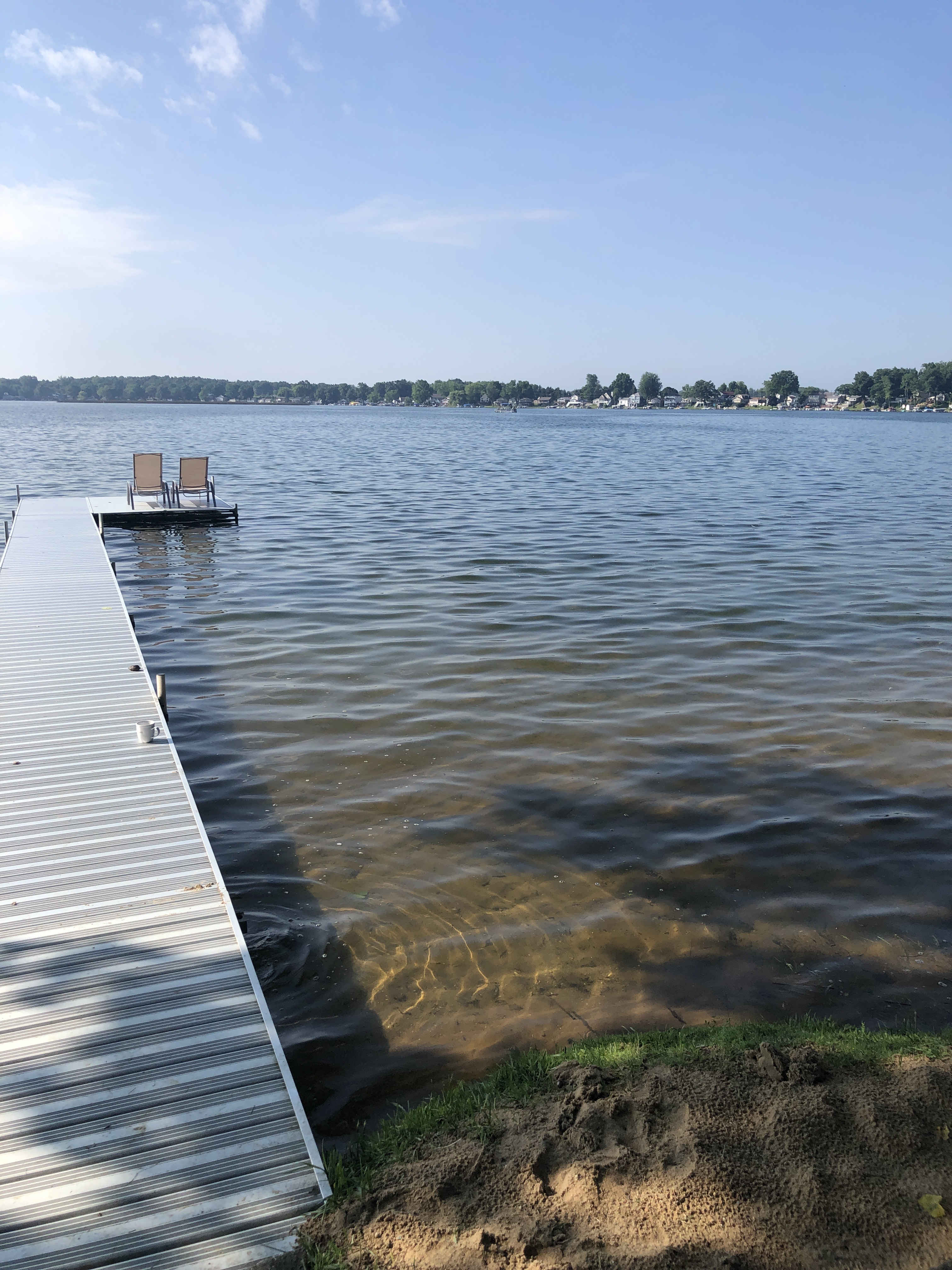 The lake has a friendly group of property owners and a vibrant lake life.